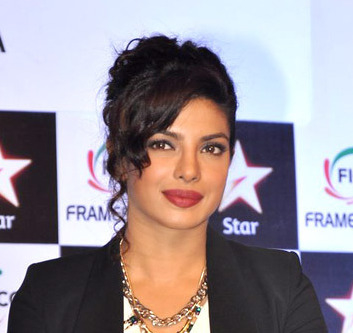 Priyanka Chopra at the 2014 Ficci Frames.